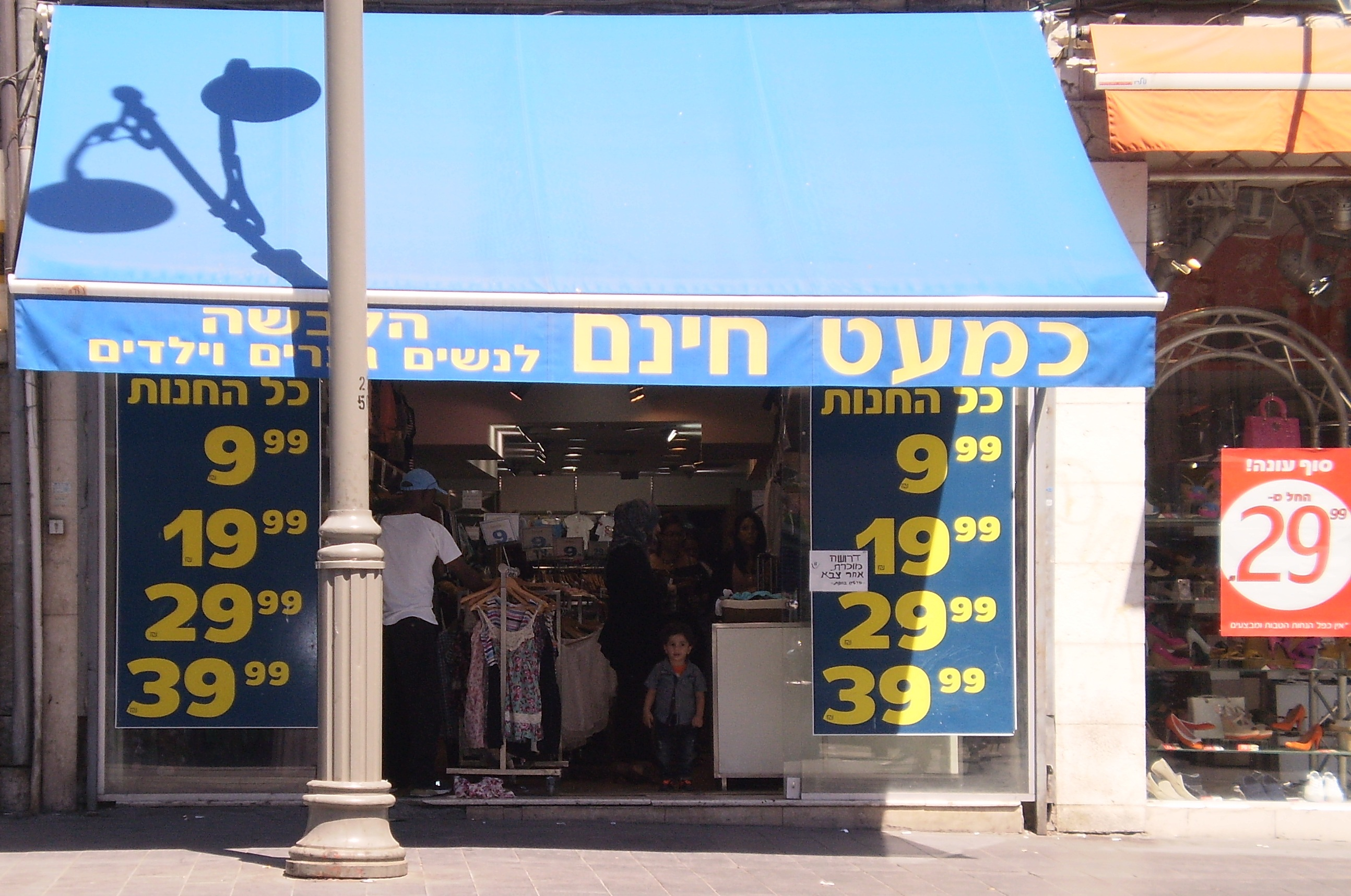 Psychological pricing in a shop in Jerusalem